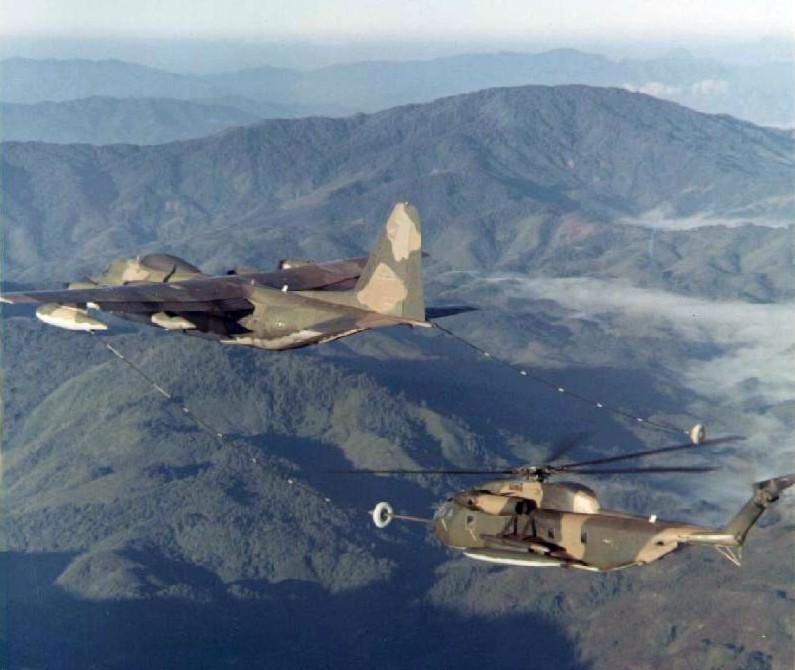 A U.S. Air Force Lockheed HC-130P Hercules refueling a Sikorsky HH-53B Super Jolly Green Giant helicopter of the 40th Aerospace Rescue and Recovery Squadron over North Vietnam, sometime between July 1969 and July 1970.